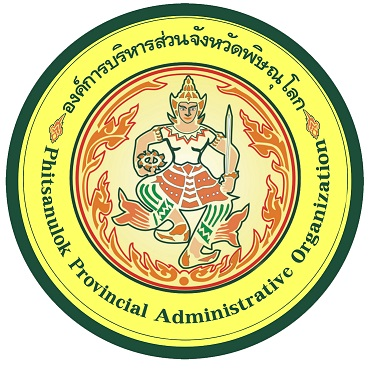 Logo of Phitsanulok Provincial Administrative Organization - PPAO